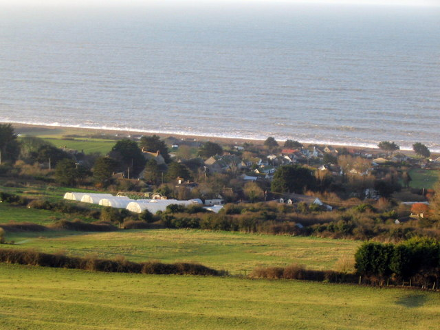 West Bexington from inland The picturesque coastal village of West Bexington has a beautiful beach, a fine hotel called the Manor...and is home to the hottest chillies in the world. (I think these are grown in the polytunnels in the near distance - could somebody put me right if I am wrong?)